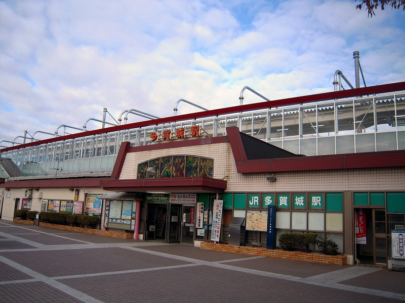 Tagajo Station on the JR East Senseki Line